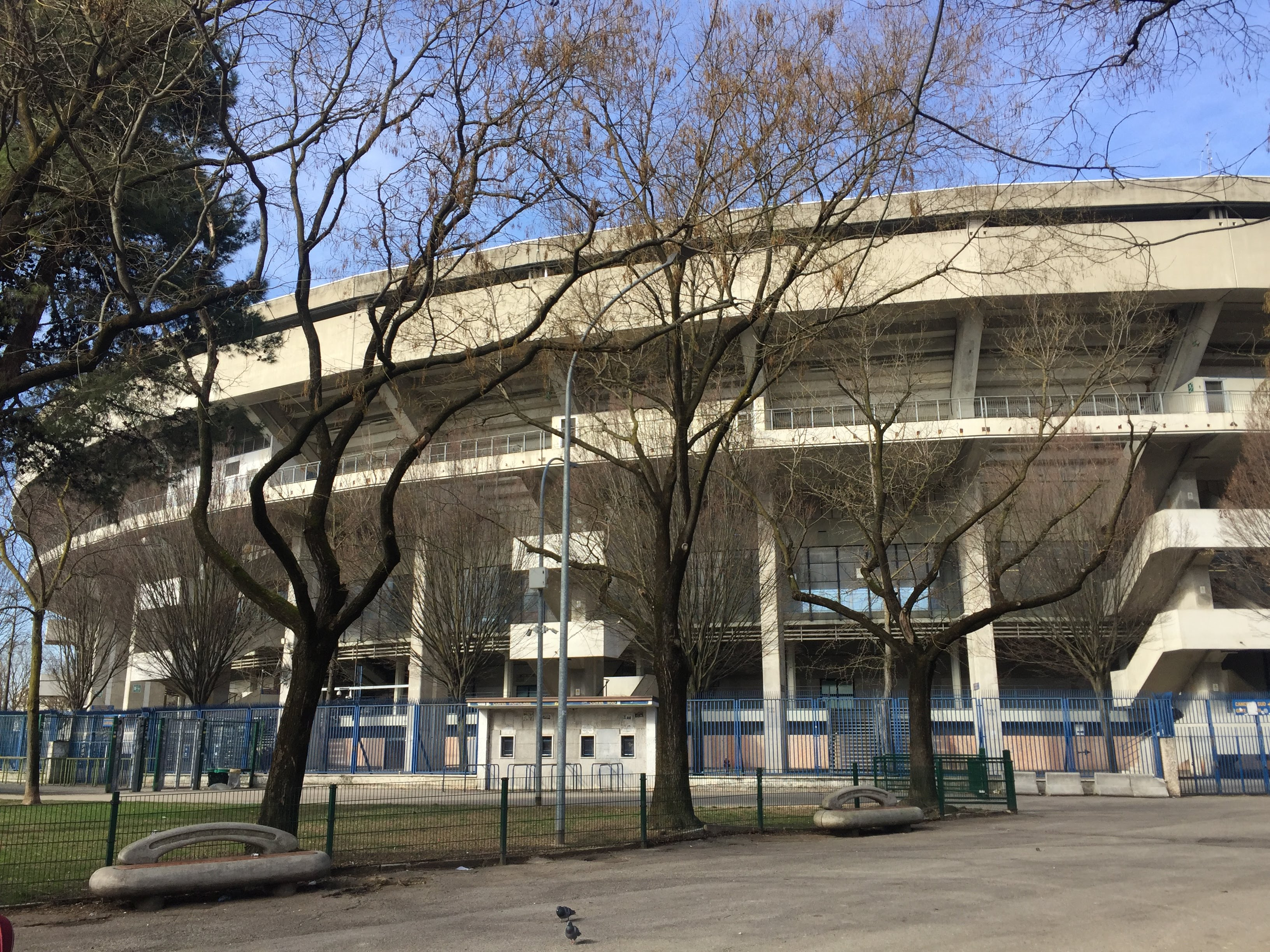 External view of the Stadio Marcantonio Bentegodi, prior to the Serie A match between Chievo Verona and Genoa.